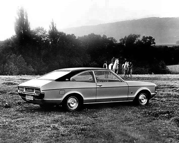 1972 Ford Granada 3000 GXL coupé